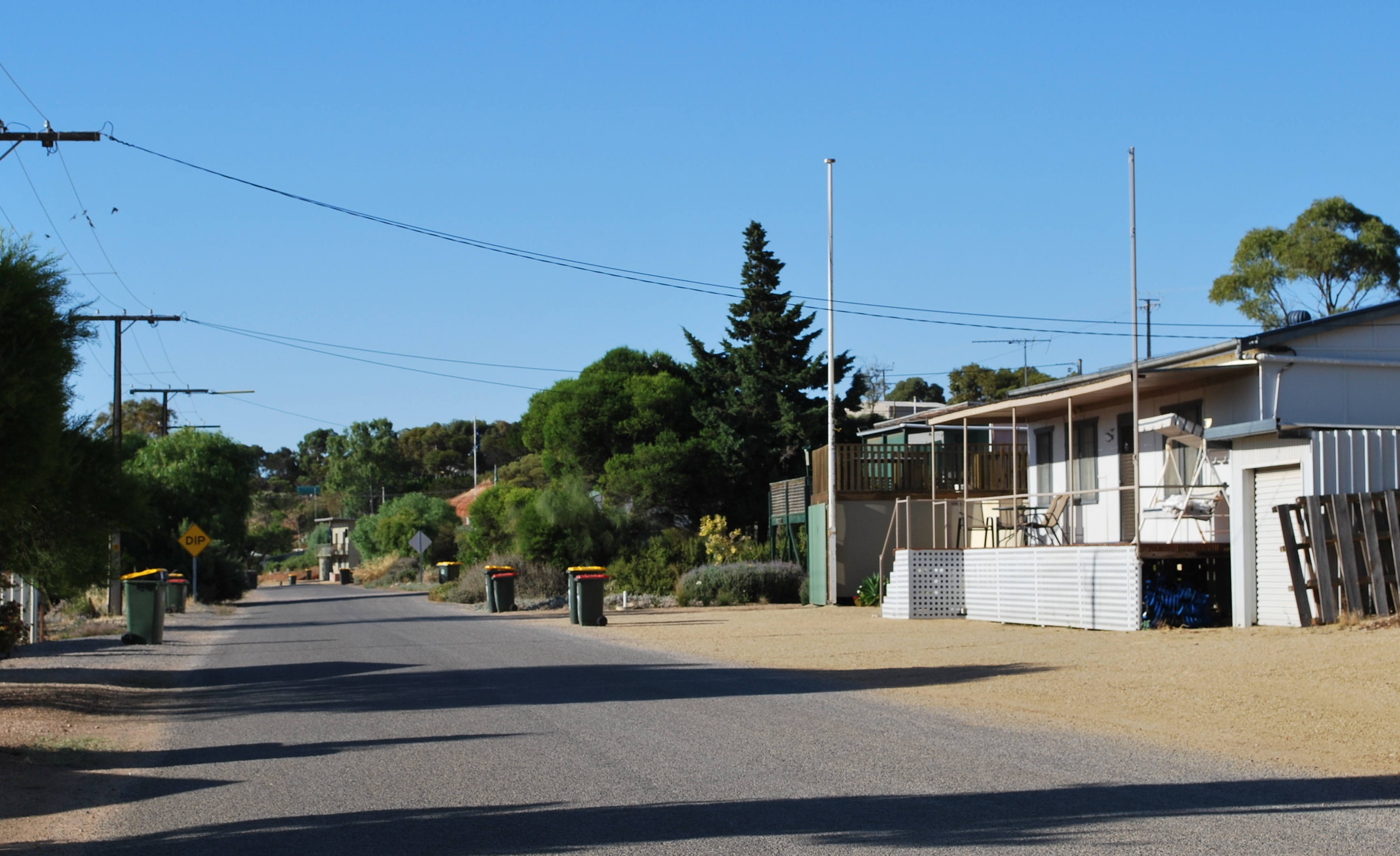 A street of beach houses at Rogues Point, South Australia